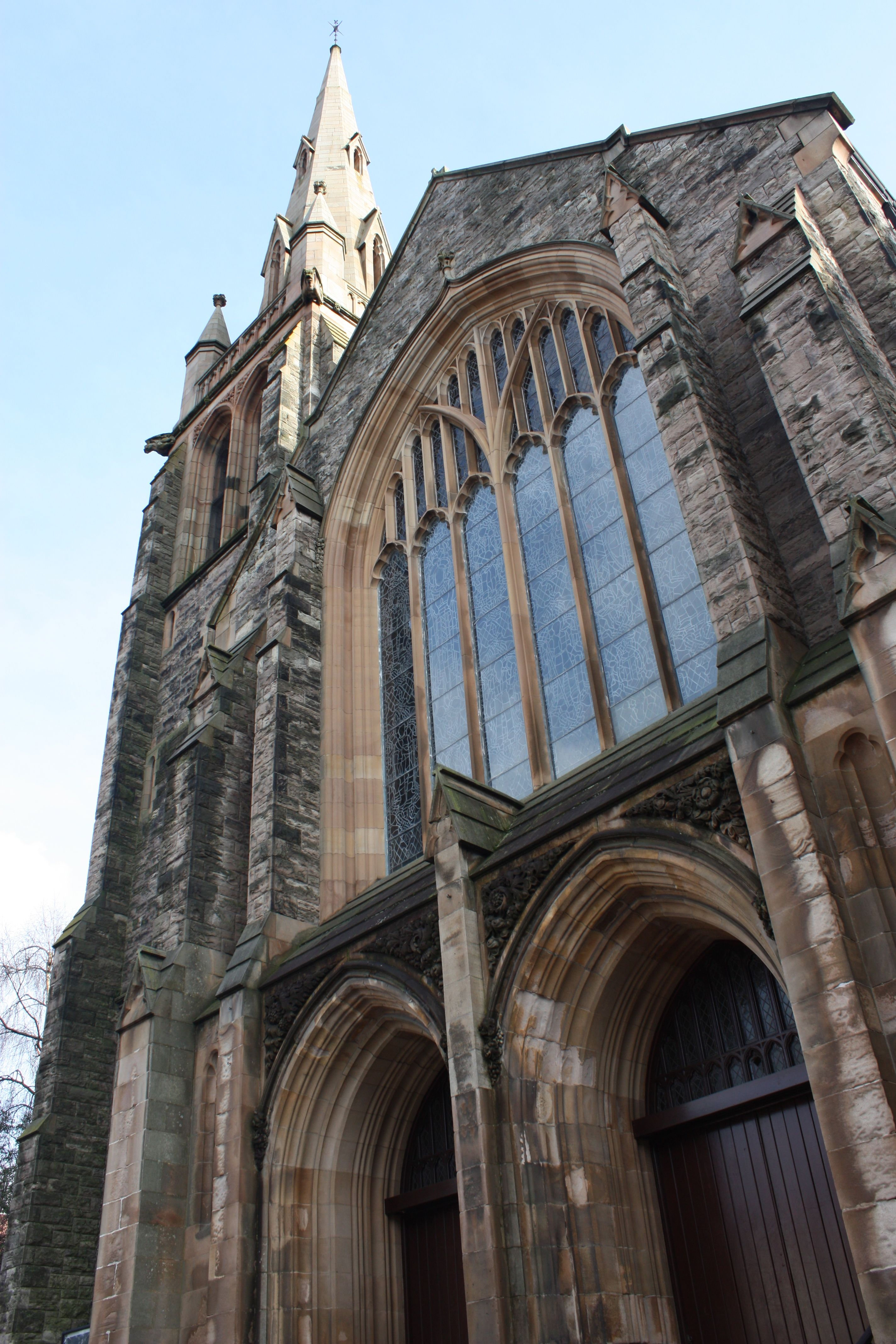 Fisherwick Presbyterian Church, Malone Road, Belfast, Northern Ireland, February 2012 (front view from Malone Road)